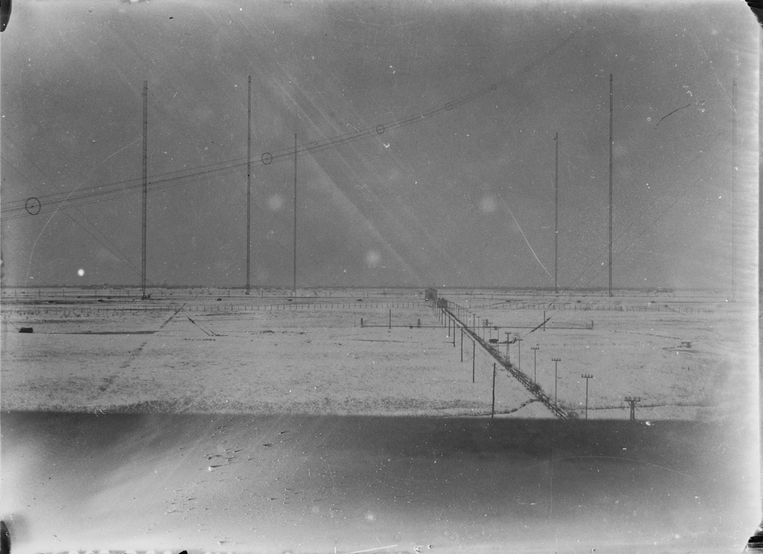 Le antenne del Centro Radio di Coltano nel 1924